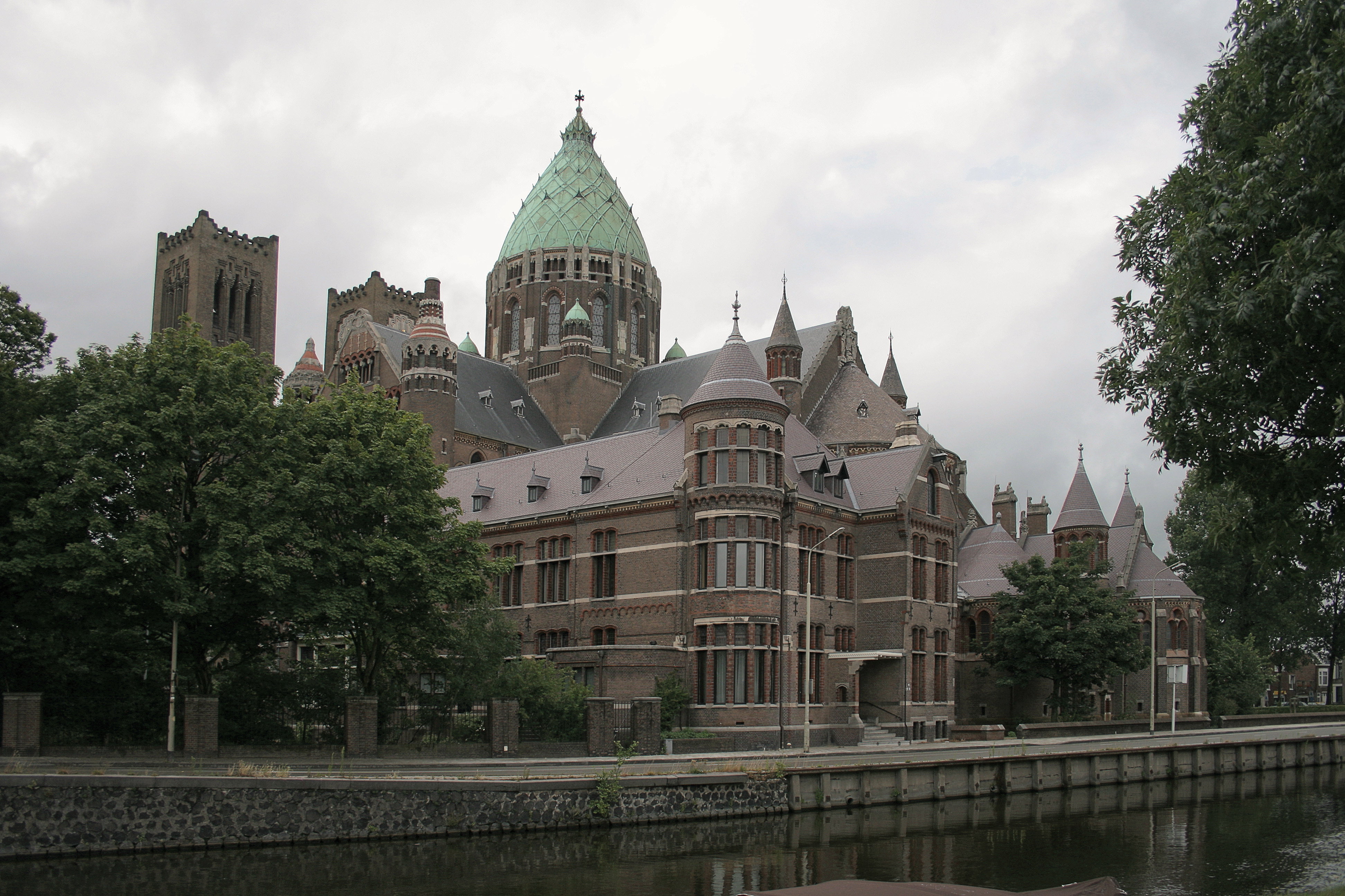 Cathedral Basilica St. Bavo, Haarlem, Netherlands